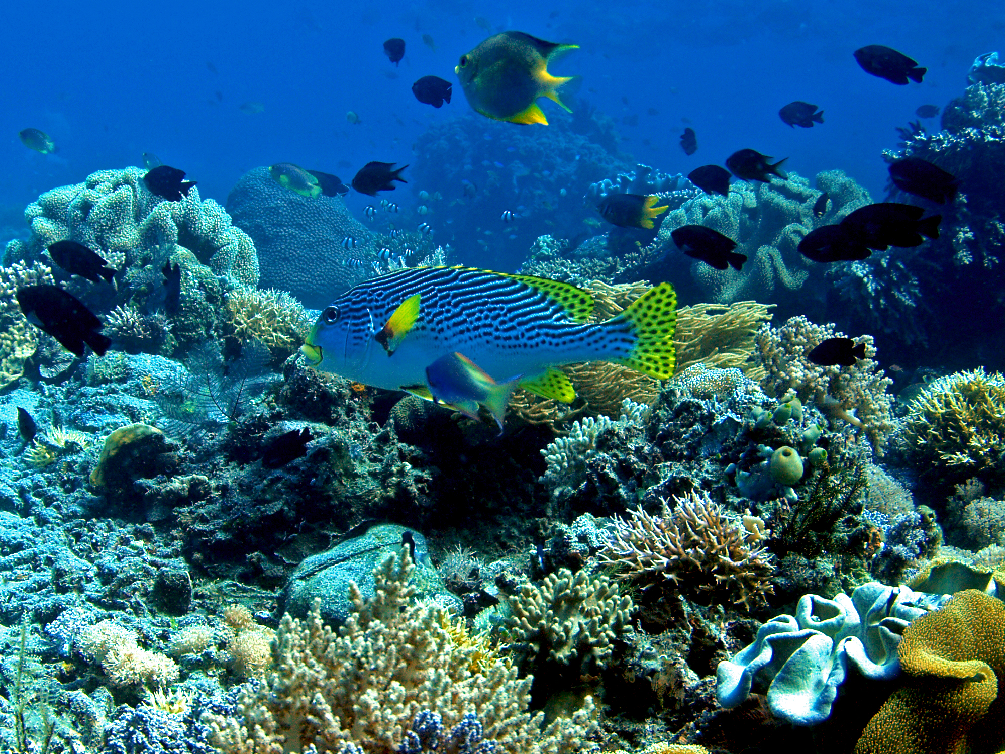 Plectorhincus lineatus (Diagonal-banded sweetlips)